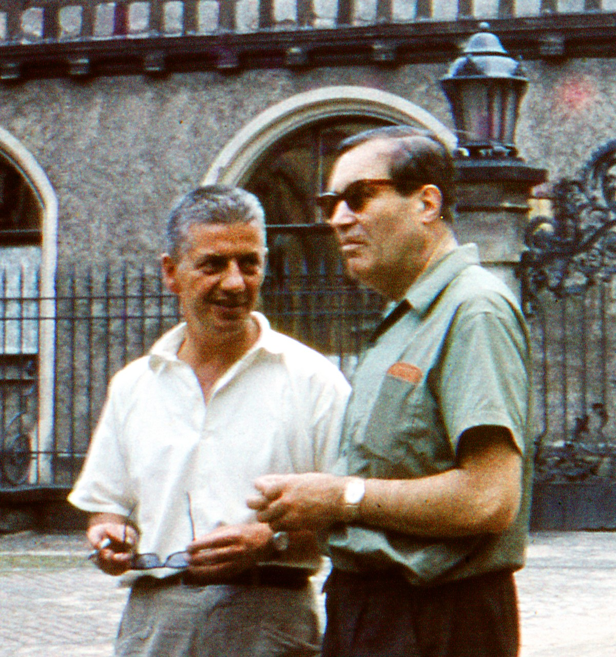 Polish historian Henryk Zieliński (left) and German historian Felix Genzen (right)